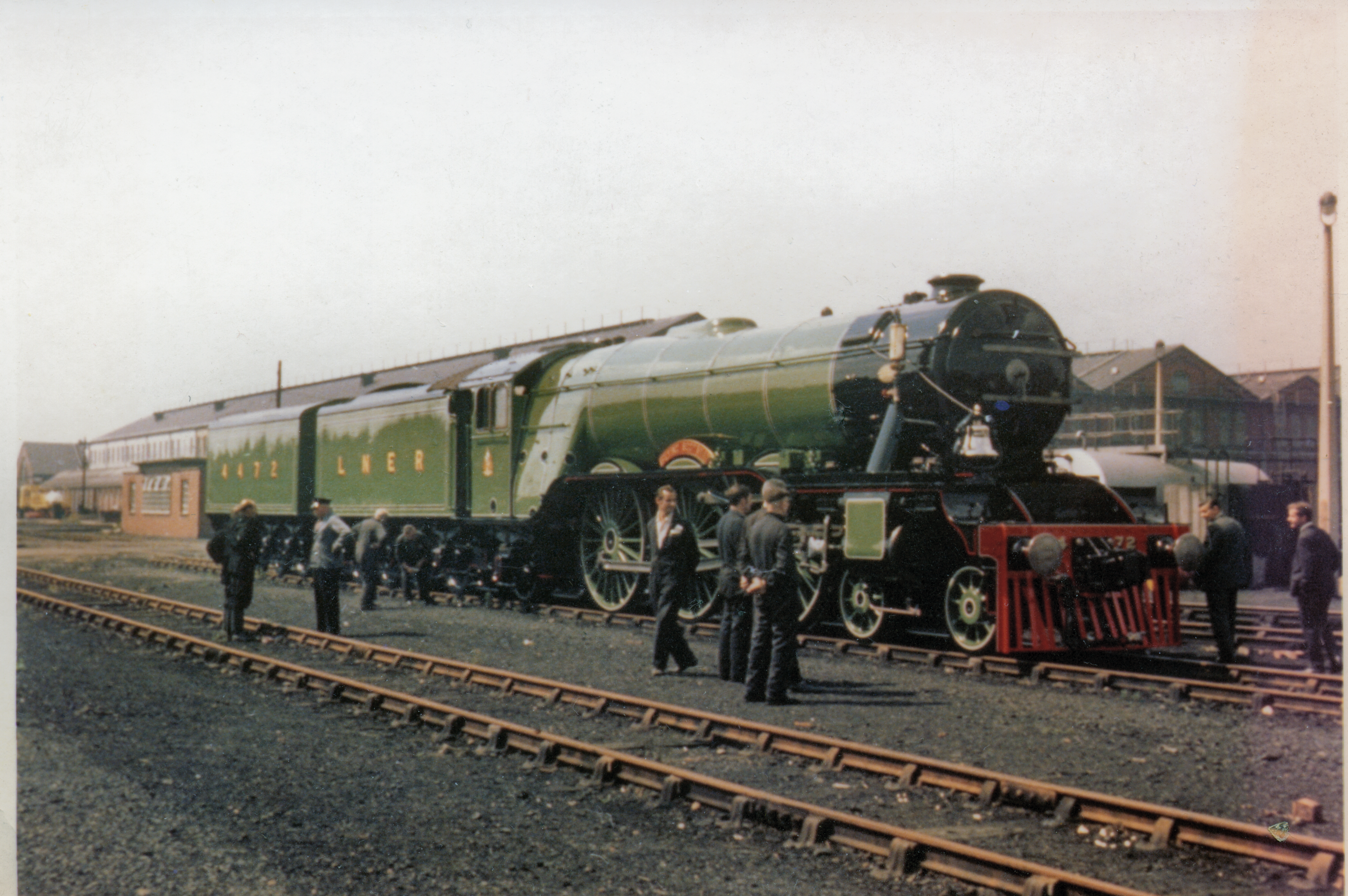 This shows the Pegler owned Scotsman with its "cowcatchers" ready in Darlington for the US tour